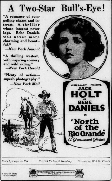 Advertisement for the American western film North of the Rio Grande (1922) with Jack Holt and Bebe Daniels, on page 42 of the May 19, 1922 Variety.